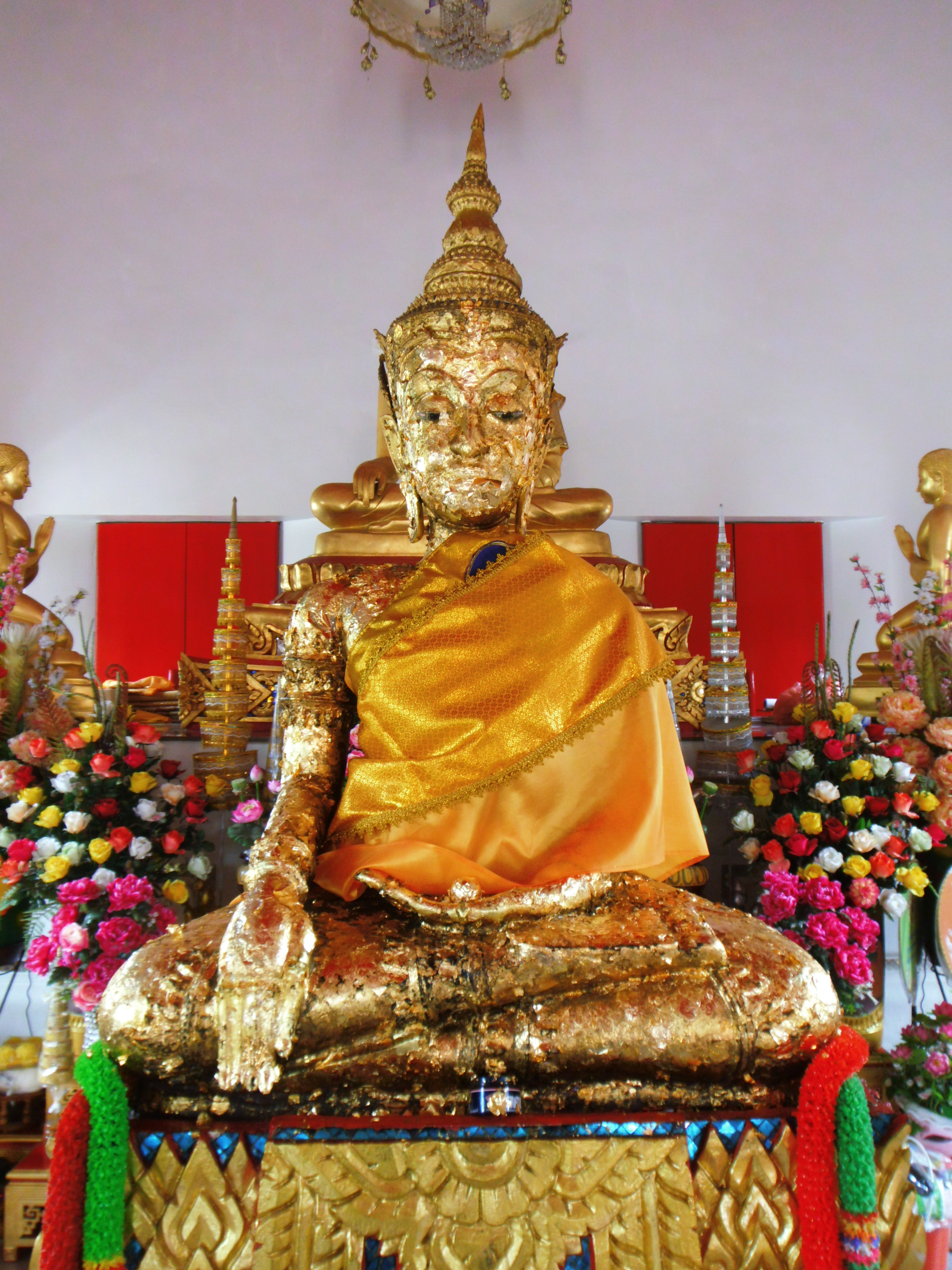 วัดตูม